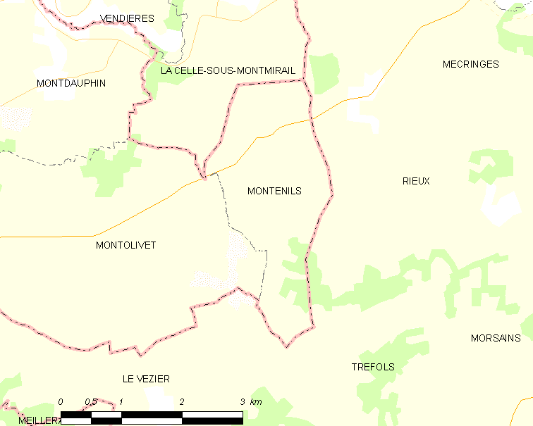 Map of French municipality Montenils